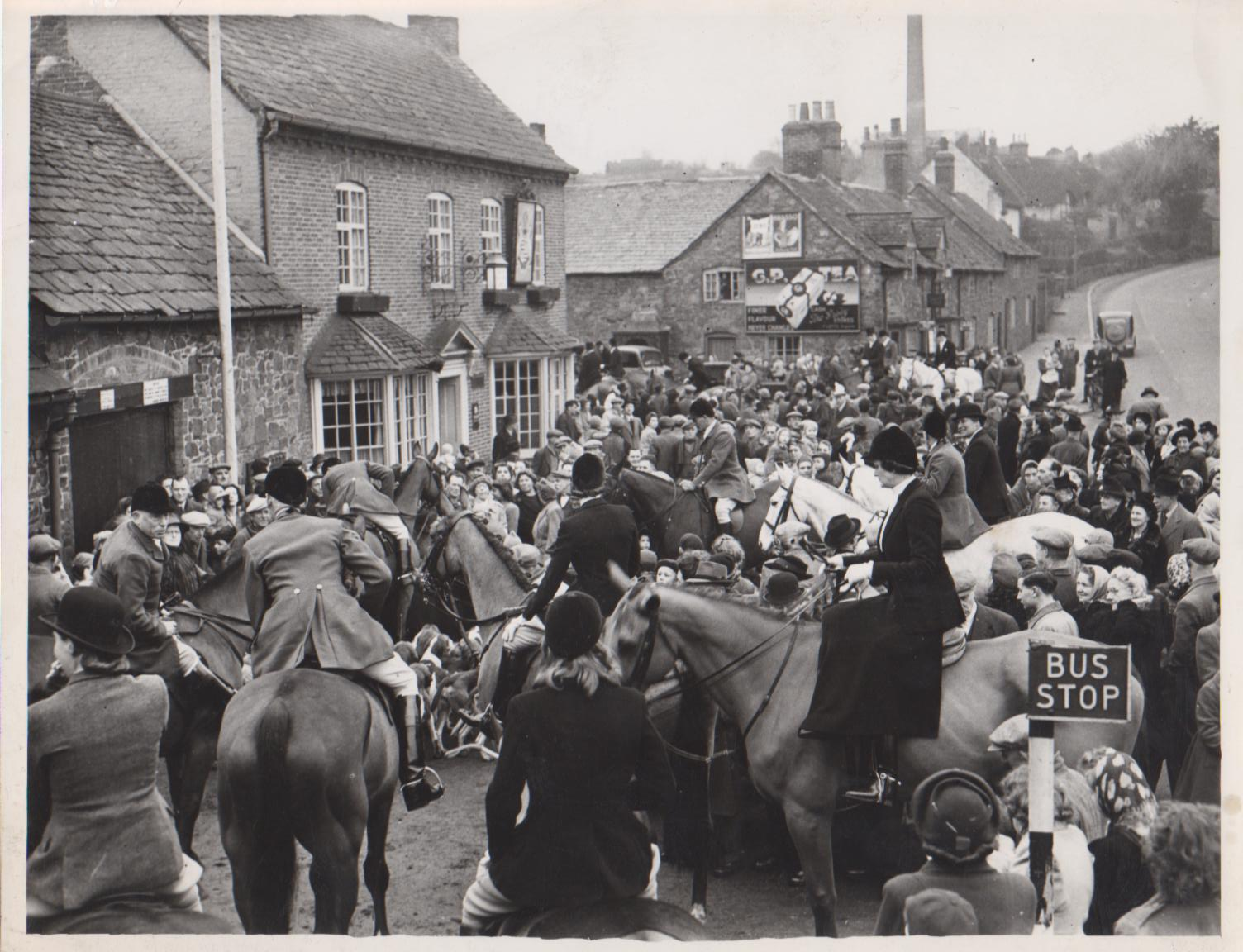 Hunt meeting outside Stamford Arms Groby, Leicestershire, former Everards family home.